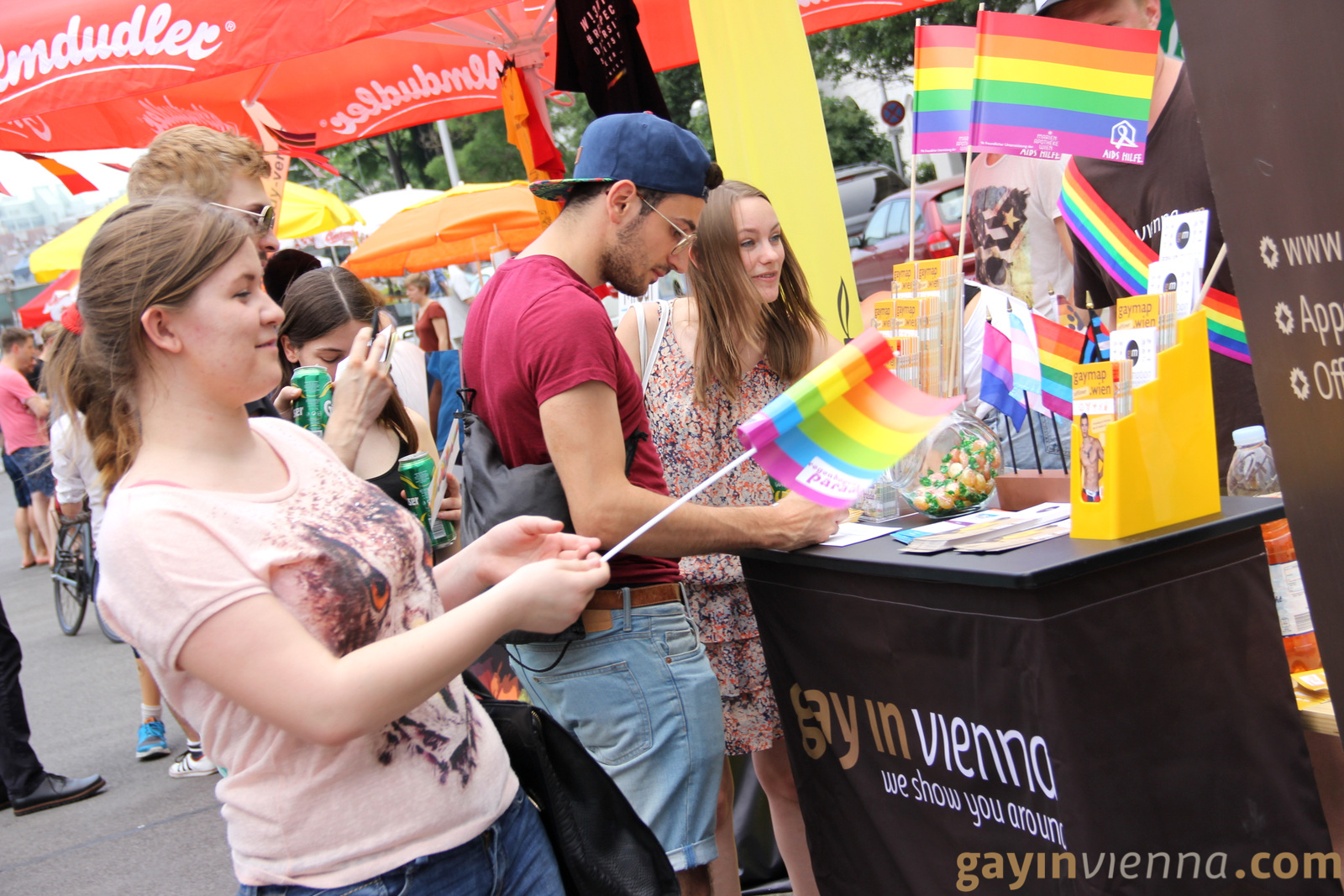 Credit: / Dorian Rammer